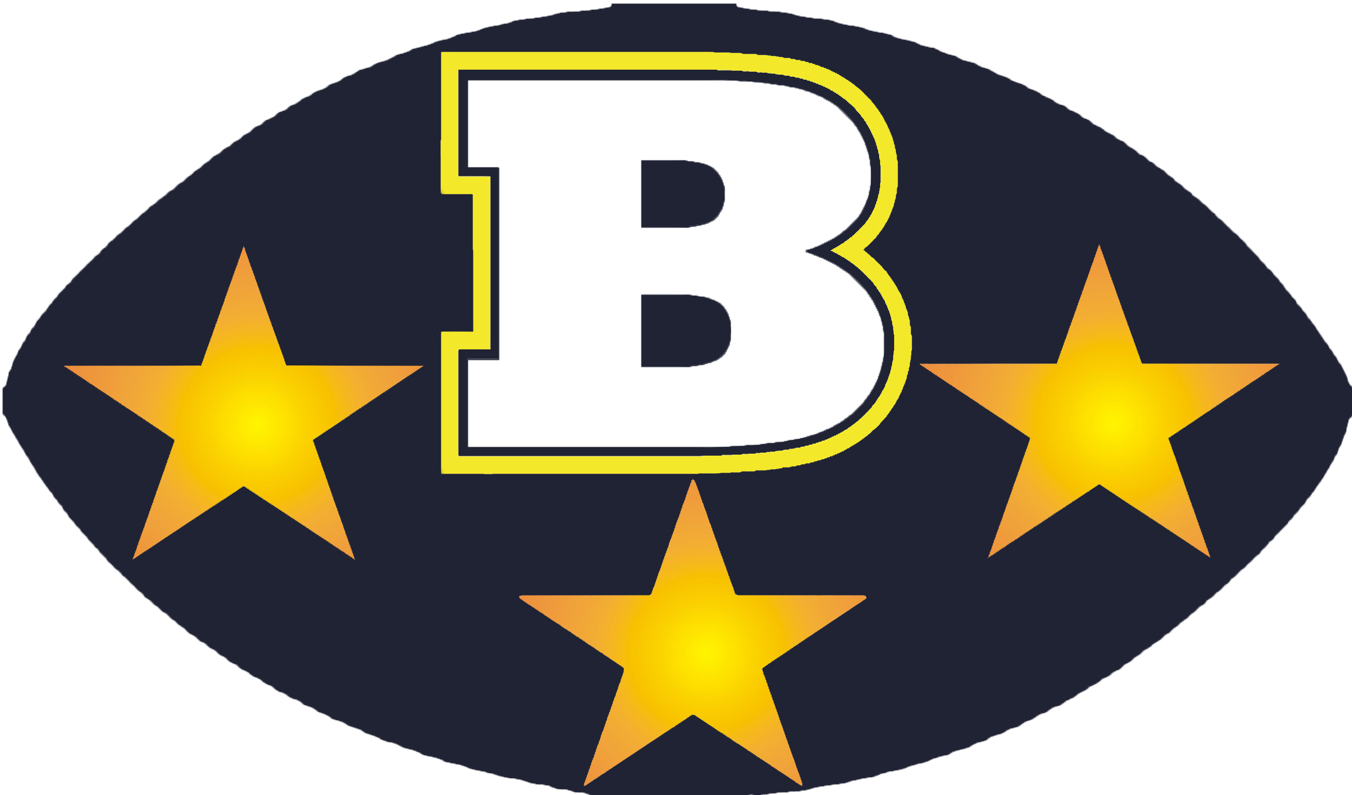 Bulldogs Away Uniform Logo